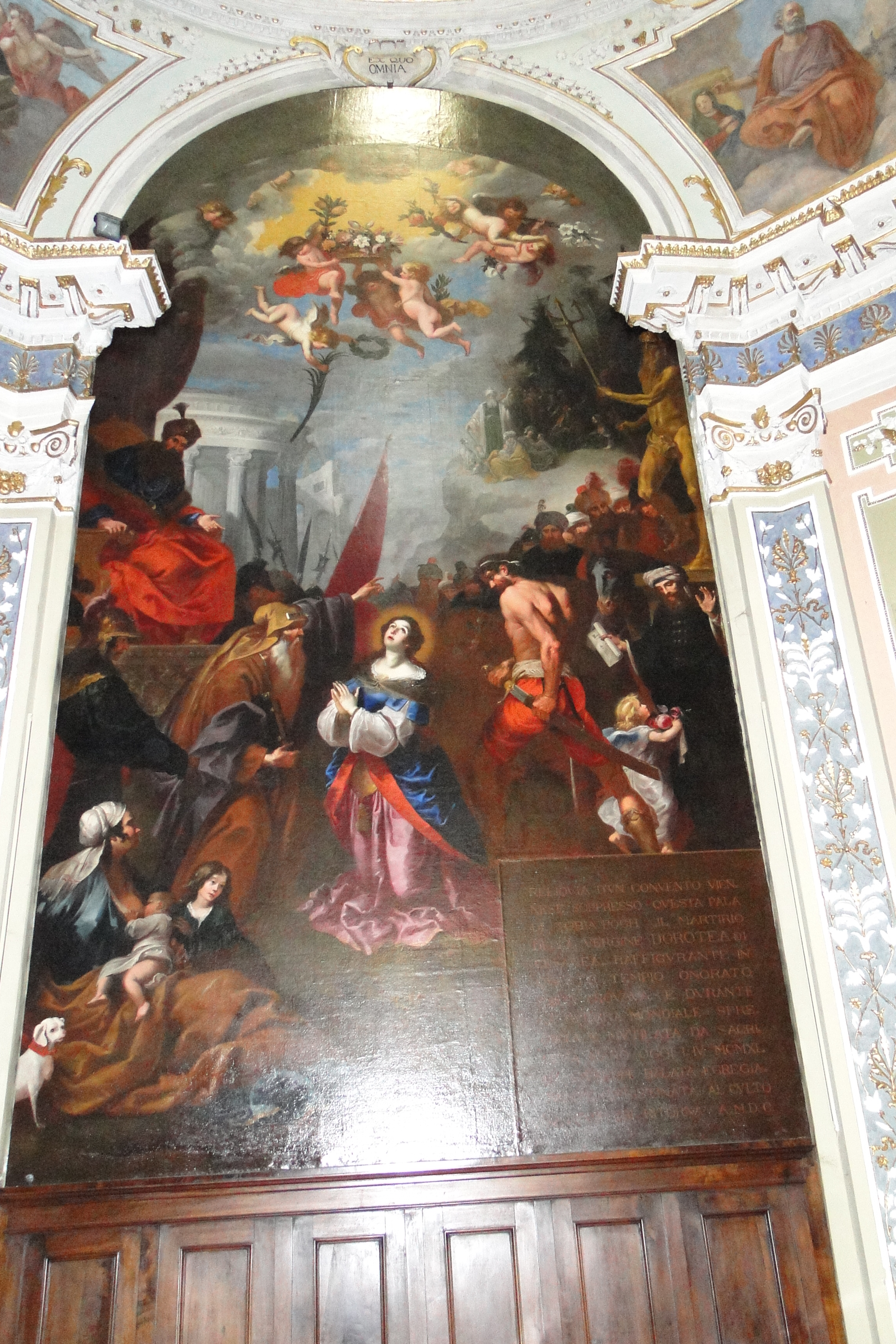 The Martyrdom of St. Dorothea of Caesarea - Painting of Tobias Pock in St. Marcus Church - Rovereto (Italy)